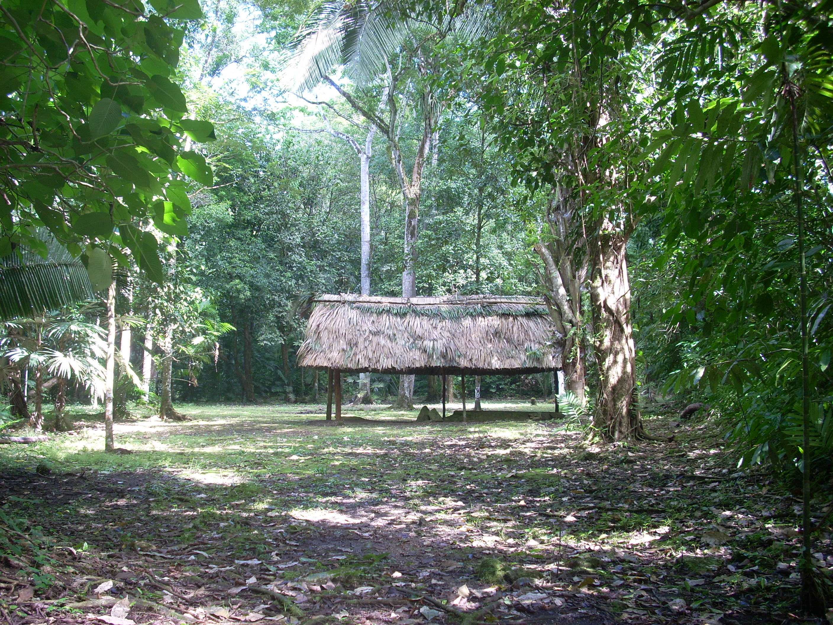 Plaza 3 at Ixkun Maya ruins, Peten, Guatemala.